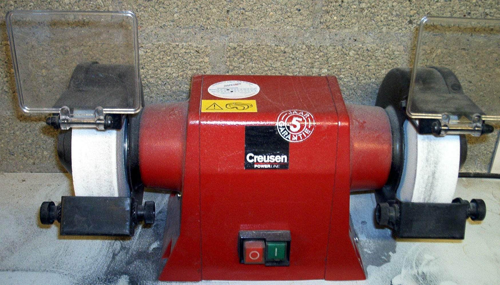 a Creusen Powerline bench grinder